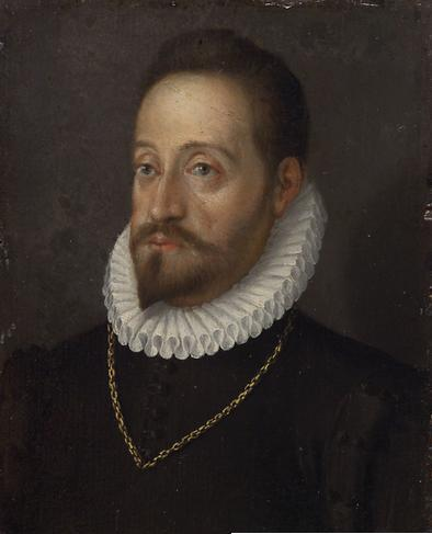 Portrait of Alfonso Gonzaga (1541-1592)